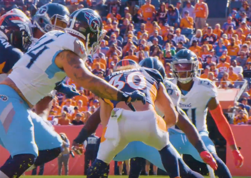 Phillip Lindsay 2019. Image from video Rashaan Evans' Improved Run Defense in 2019 | Beneath the Surface, ~ 01:01